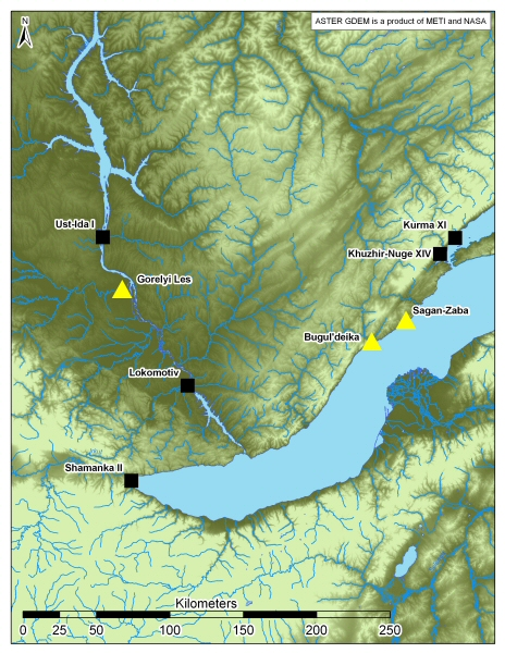 Habitation and archaeological sites from the Lake Baikal region plotted on a NASA ASTER GDEM